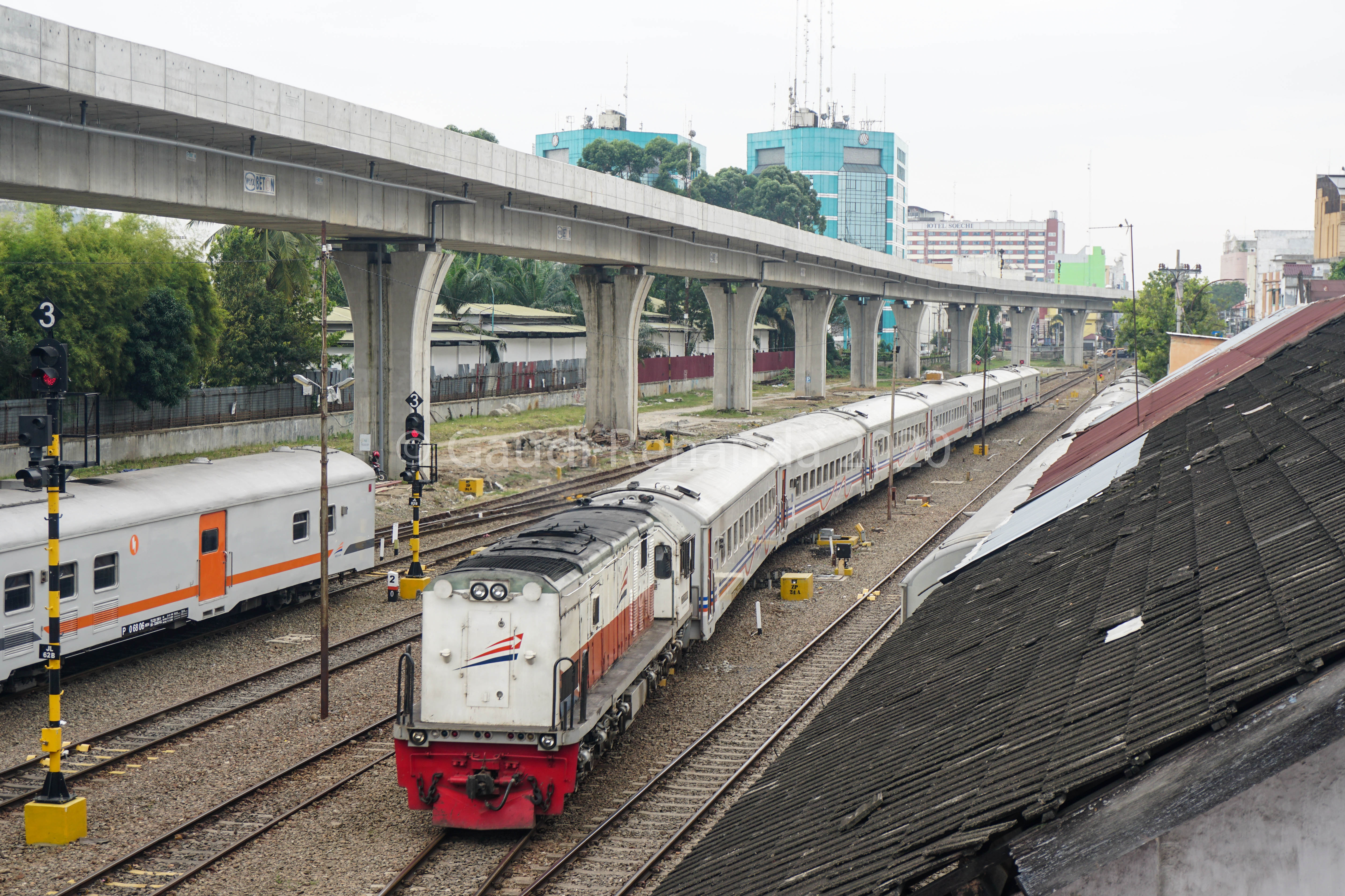 Putri Deli Pagi arriving Medan Station